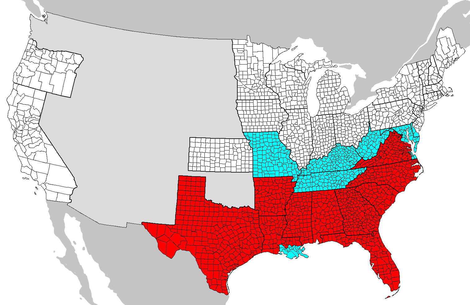 Summary Map of counties covered (red) and not covered (blue) by the Emancipation Proclamation.